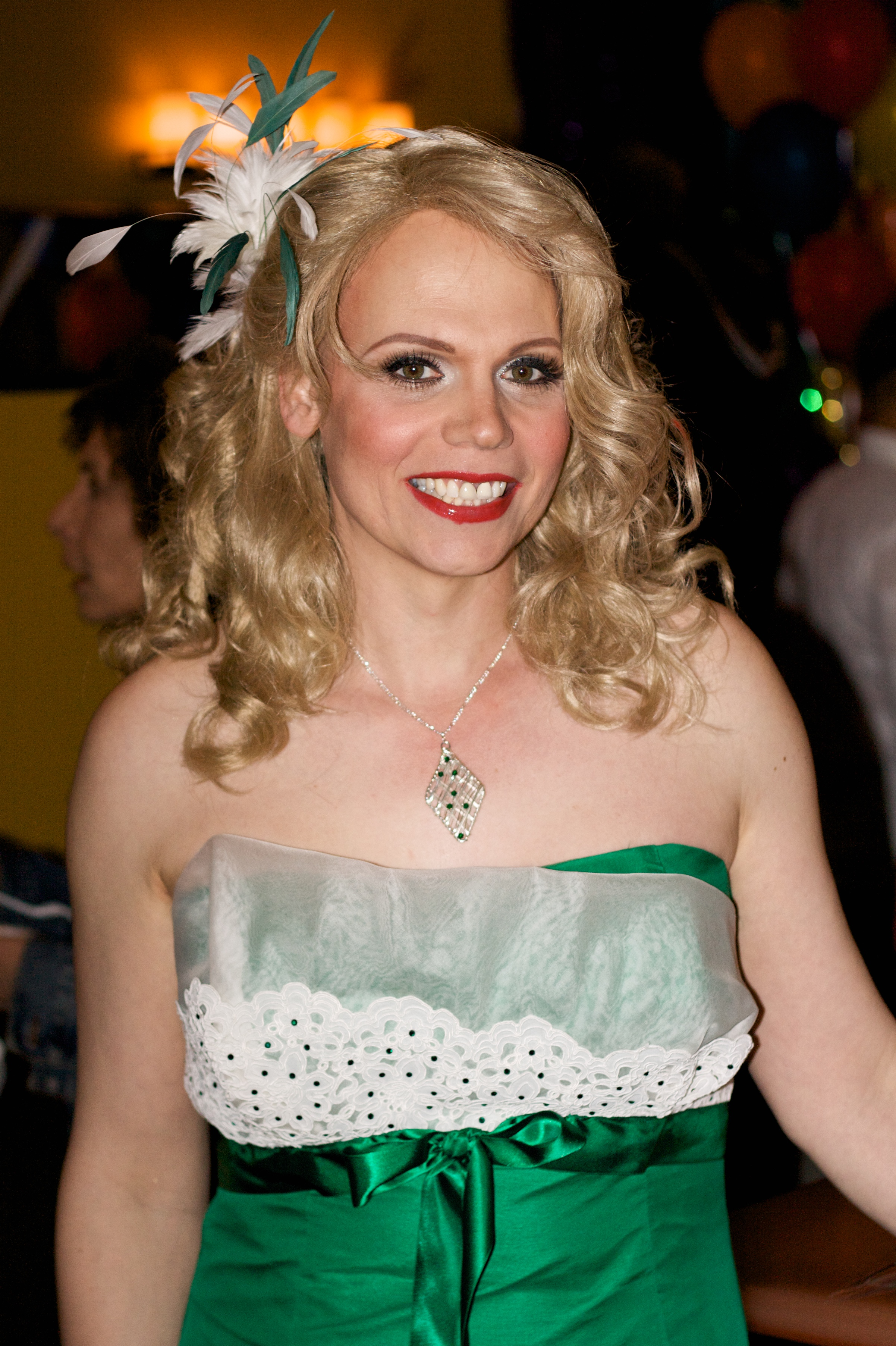 Enza "Supermodel" Anderson, at the Pride Grand Marshal party at Woody's in Toronto.